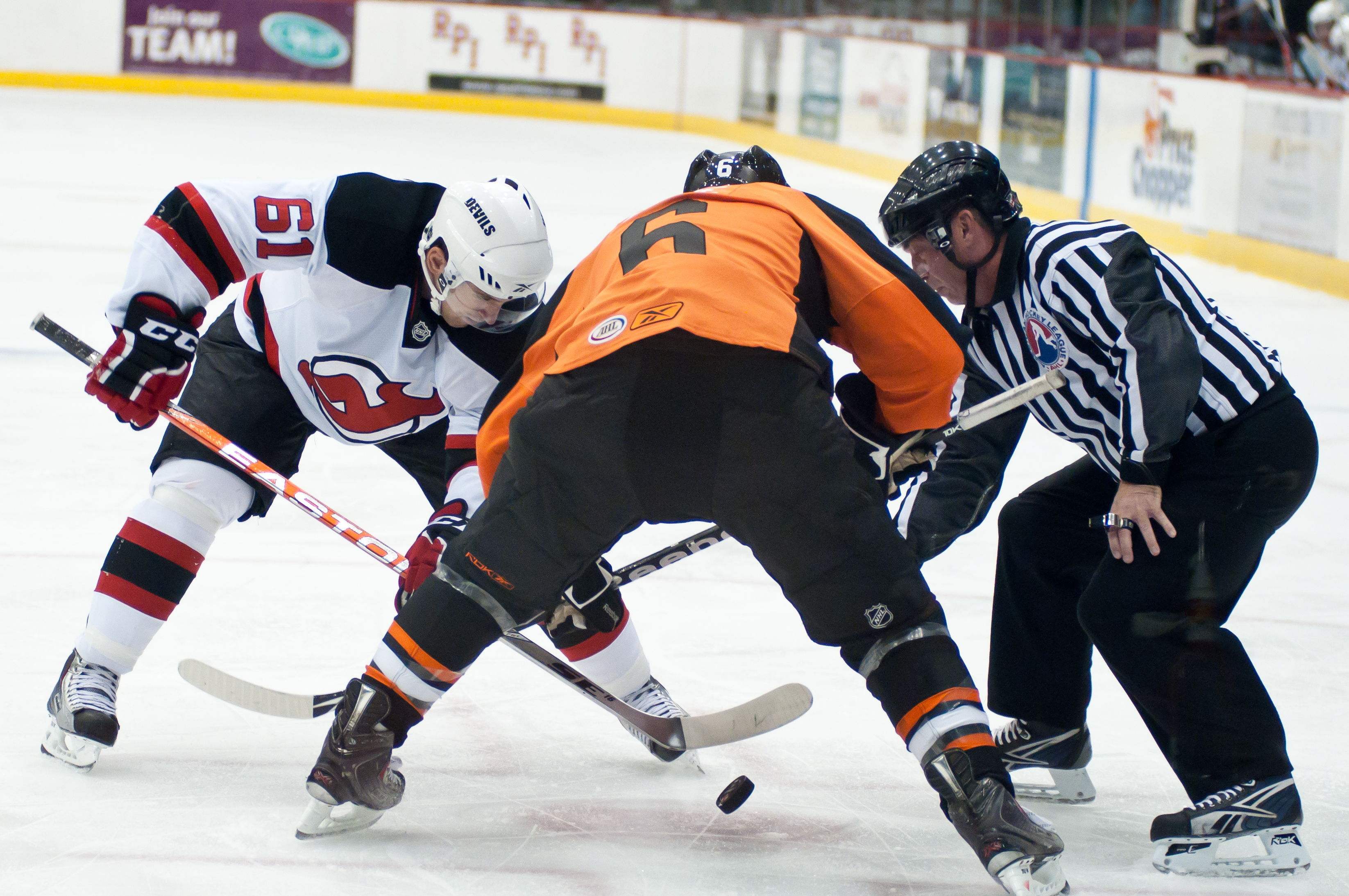 Tim Sestito October 2nd, 10 - Albany Devils vs. Adirondack Phantoms (Pre-Season) - Houston Field House